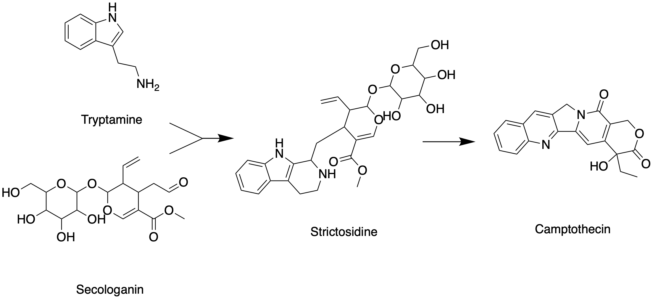 Structure ofSteps to campothecin from tryptamine and secologanin [1]